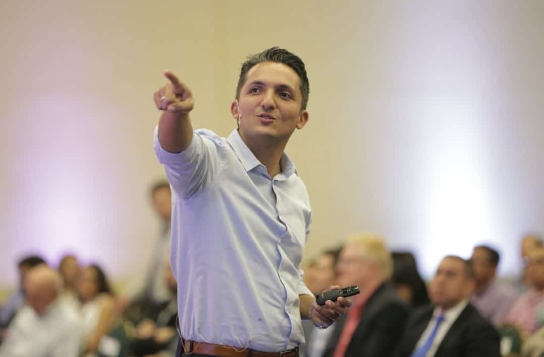 Juan Pablo Gallo Maya Alcalde de Pereira